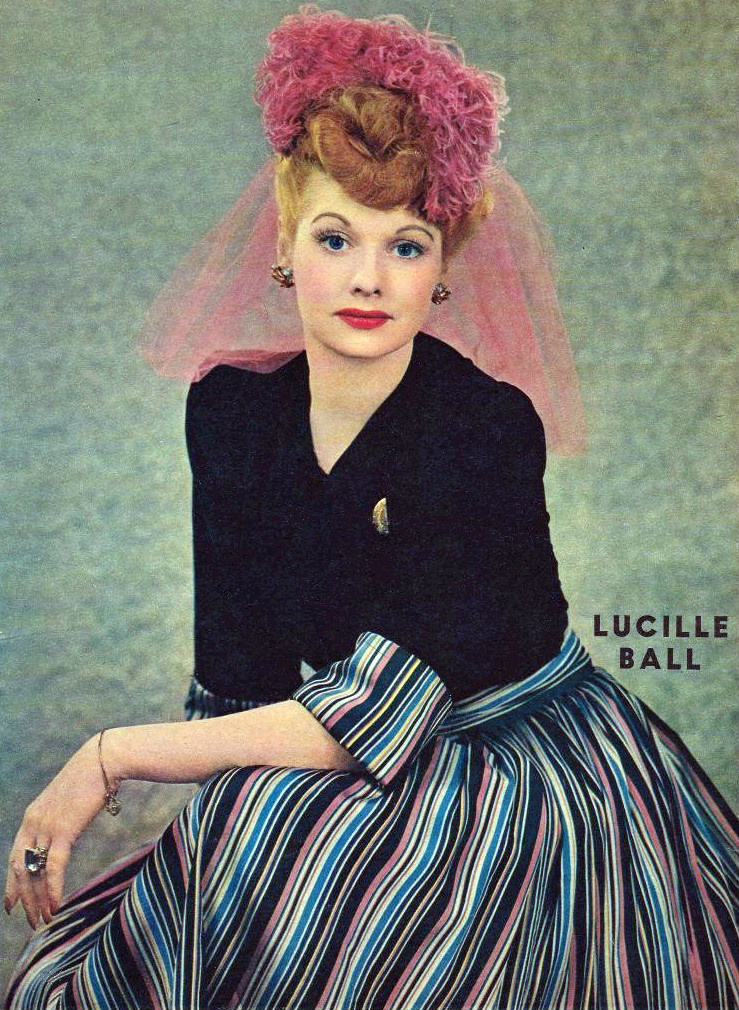 Photo of Lucille Ball from the New York Sunday News.